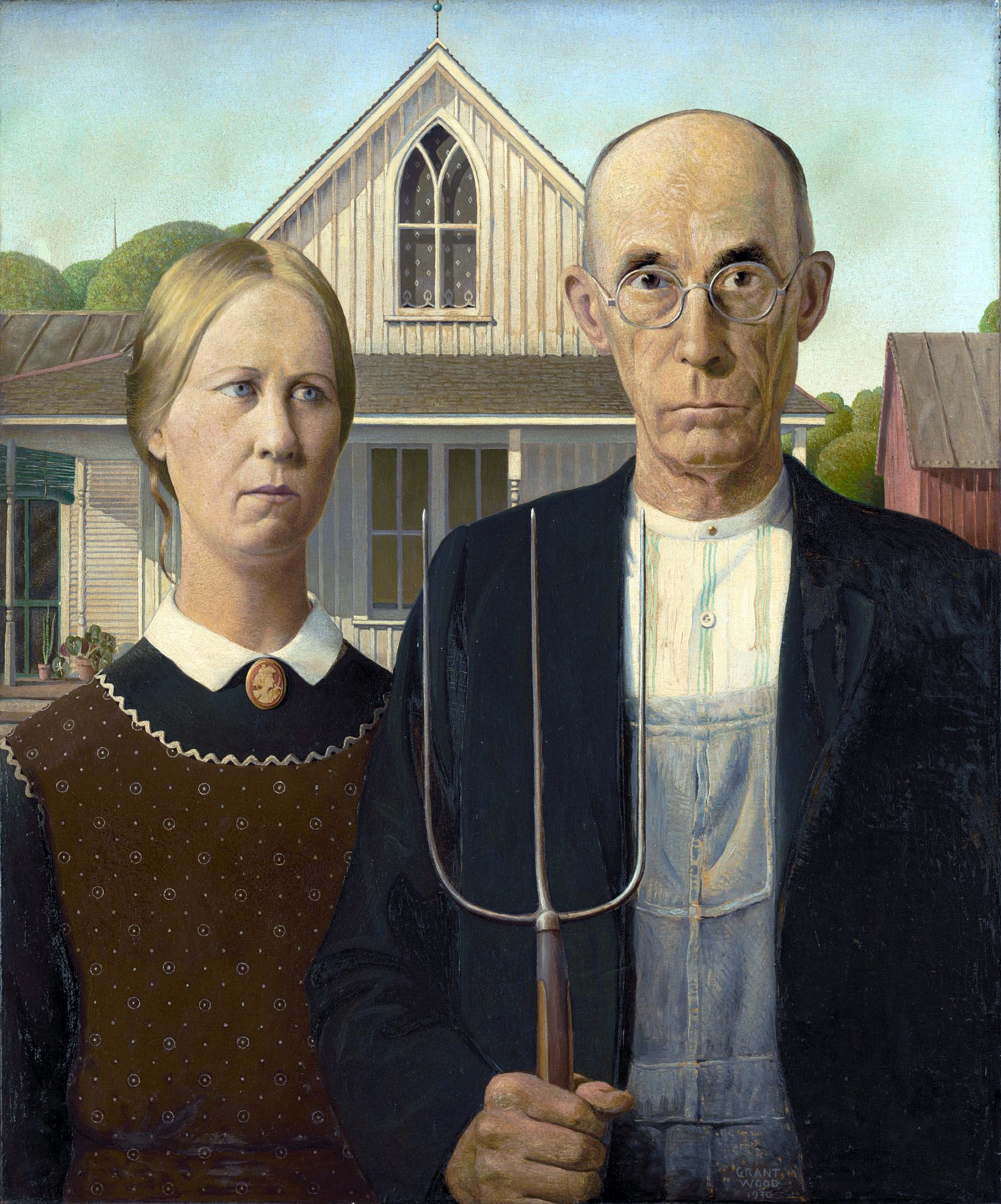 This is a digitized image of the original painting American Gothic that Grant Wood, a master artist of the twentieth century, created in 1930 and sold to the Art Institute of Chicago in November of the same year.